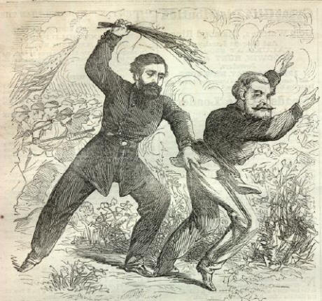 "Grant Turning Lee's Flank". June 1864 cartoon of American Civil War, depicting Union General U.S. Grant spanking Confederate General Robert E. Lee.